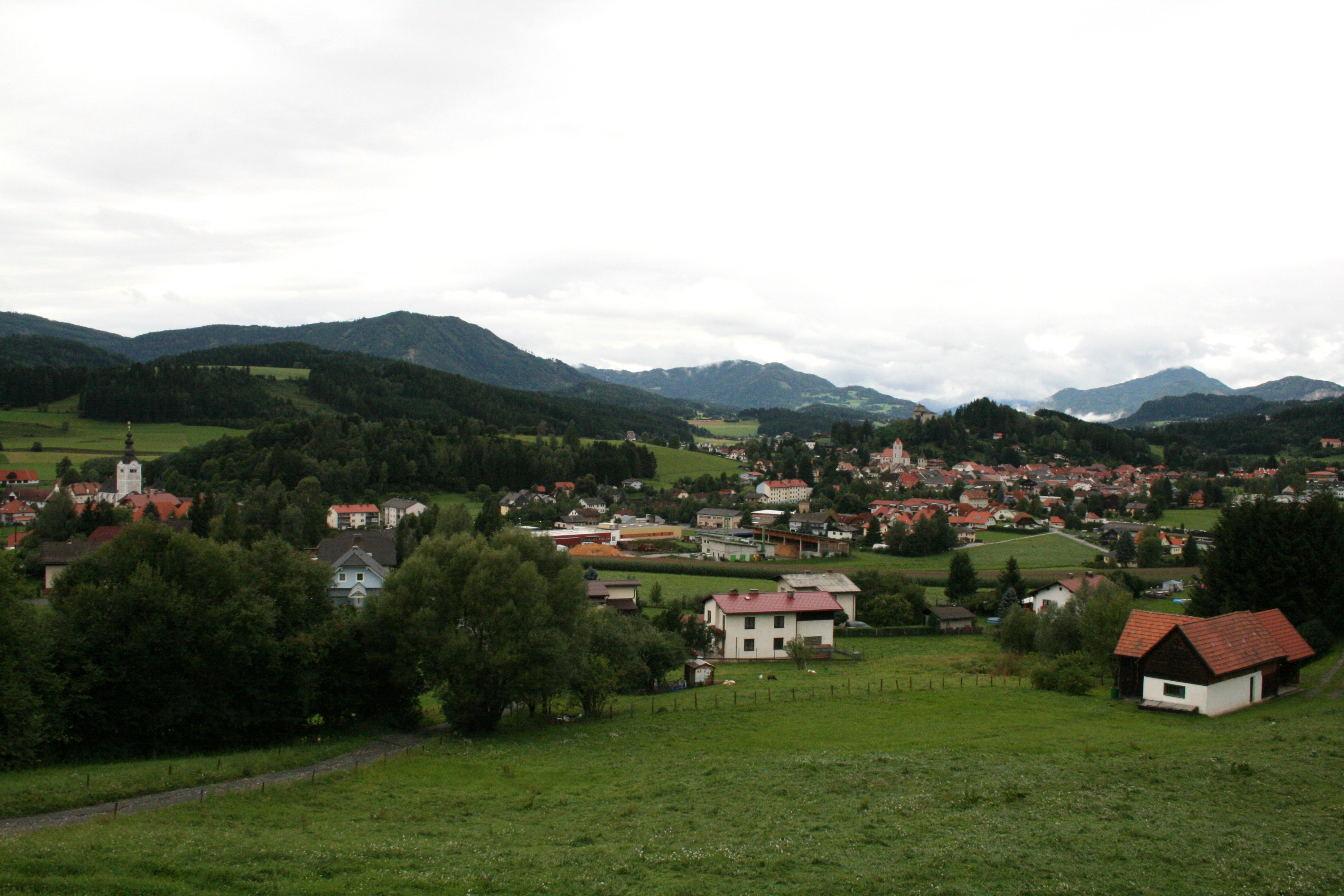 "Neumarkt in Styria", a village in Styria, Austria, Europe